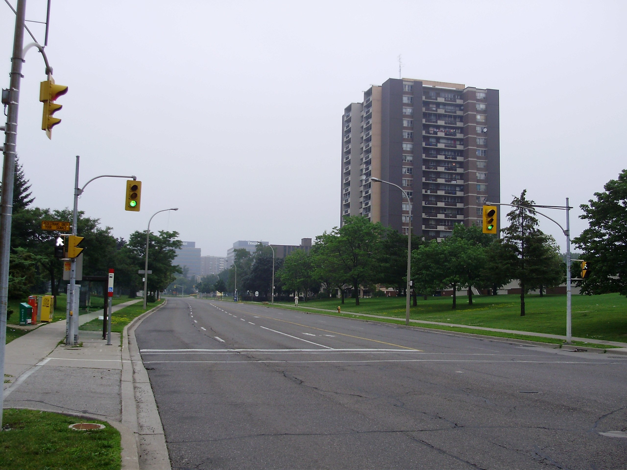 Looking north along The West Mall, the central artery of the Etobicoke West Mall neighborhood, in Etobicoke, Ontario, Canada at Eva Road. The office towers in the distance are at its intersection with Burnhamthorpe Road.